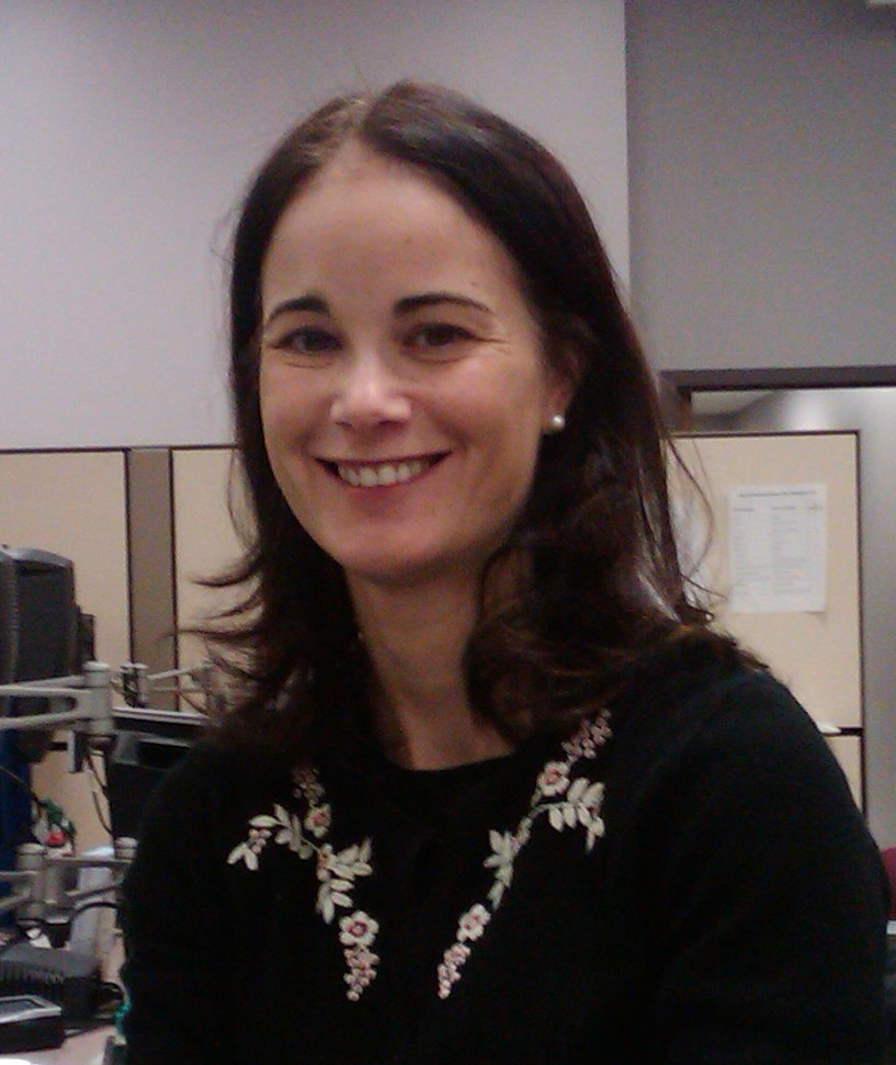 MassDOT RMV Registrar Rachel Kaprielian joins staff at the RMV Watertown Branch to assist customers on Friday, December 30, 2011. Watertown is the busiest RMV branch and the last day of the year is one of the busiest.